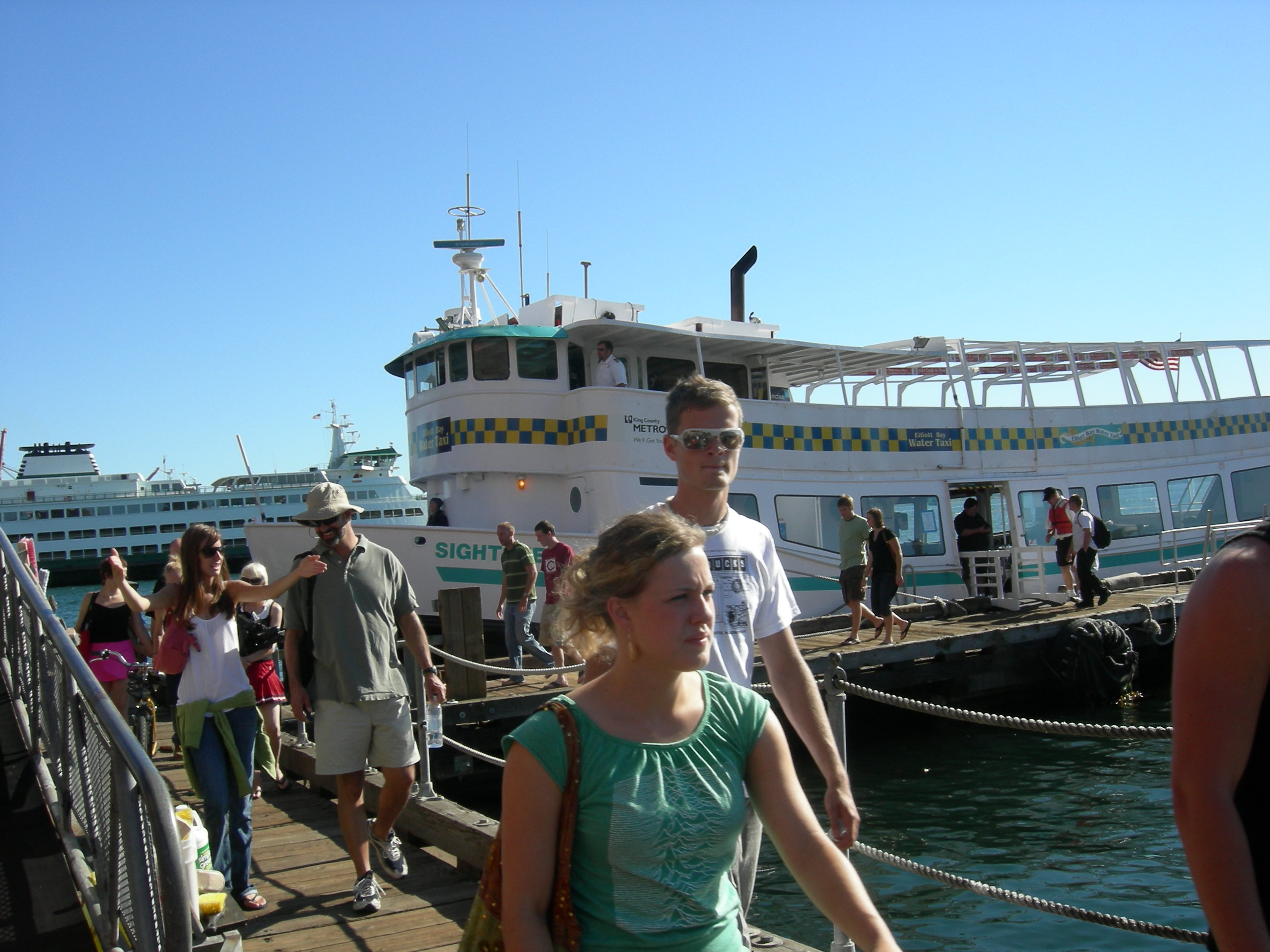 Debarking from Elliott Bay Water Taxi, Pier 55, Seattle, Washington. A Washington State Ferry can be seen in background.